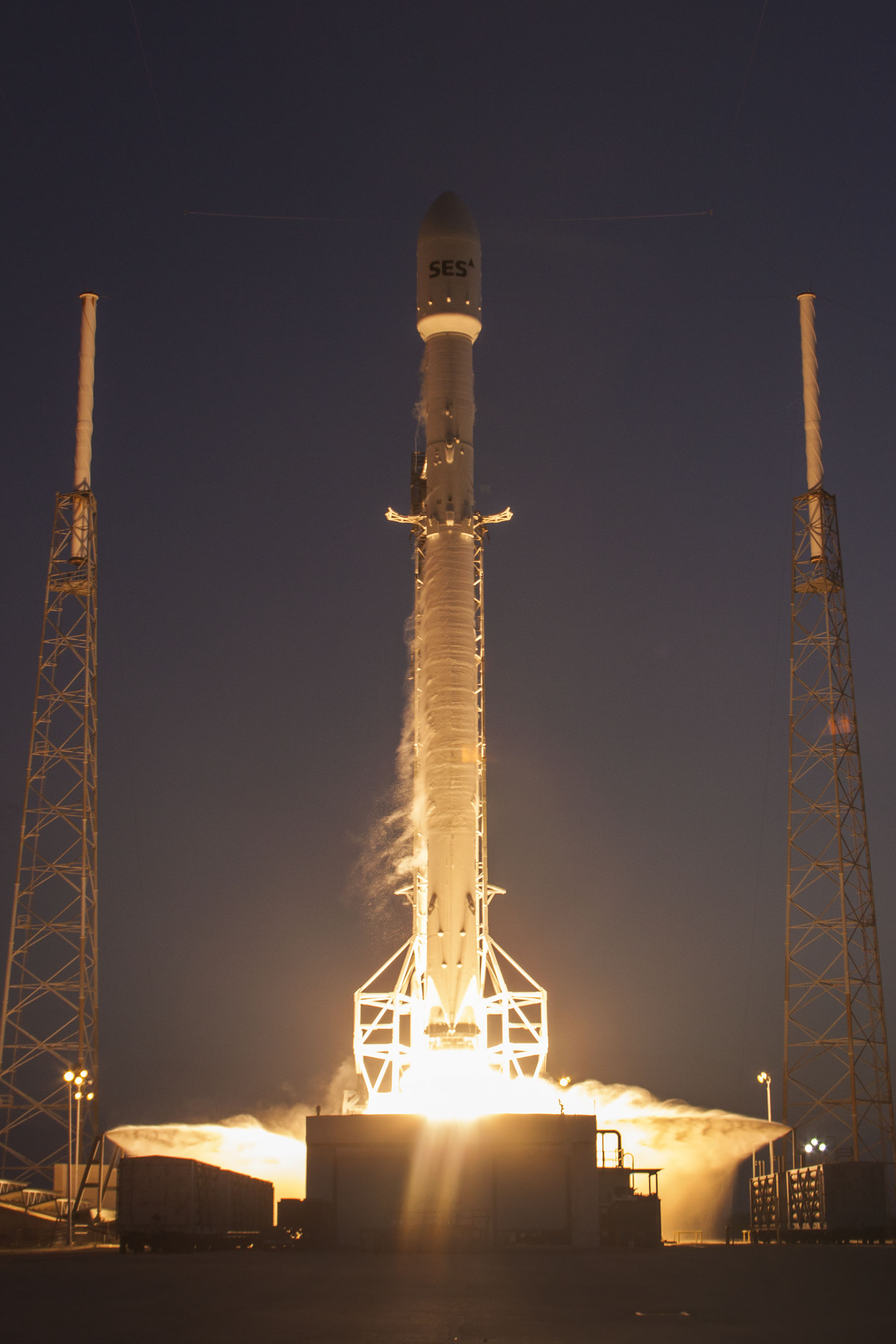 SES-9 launch